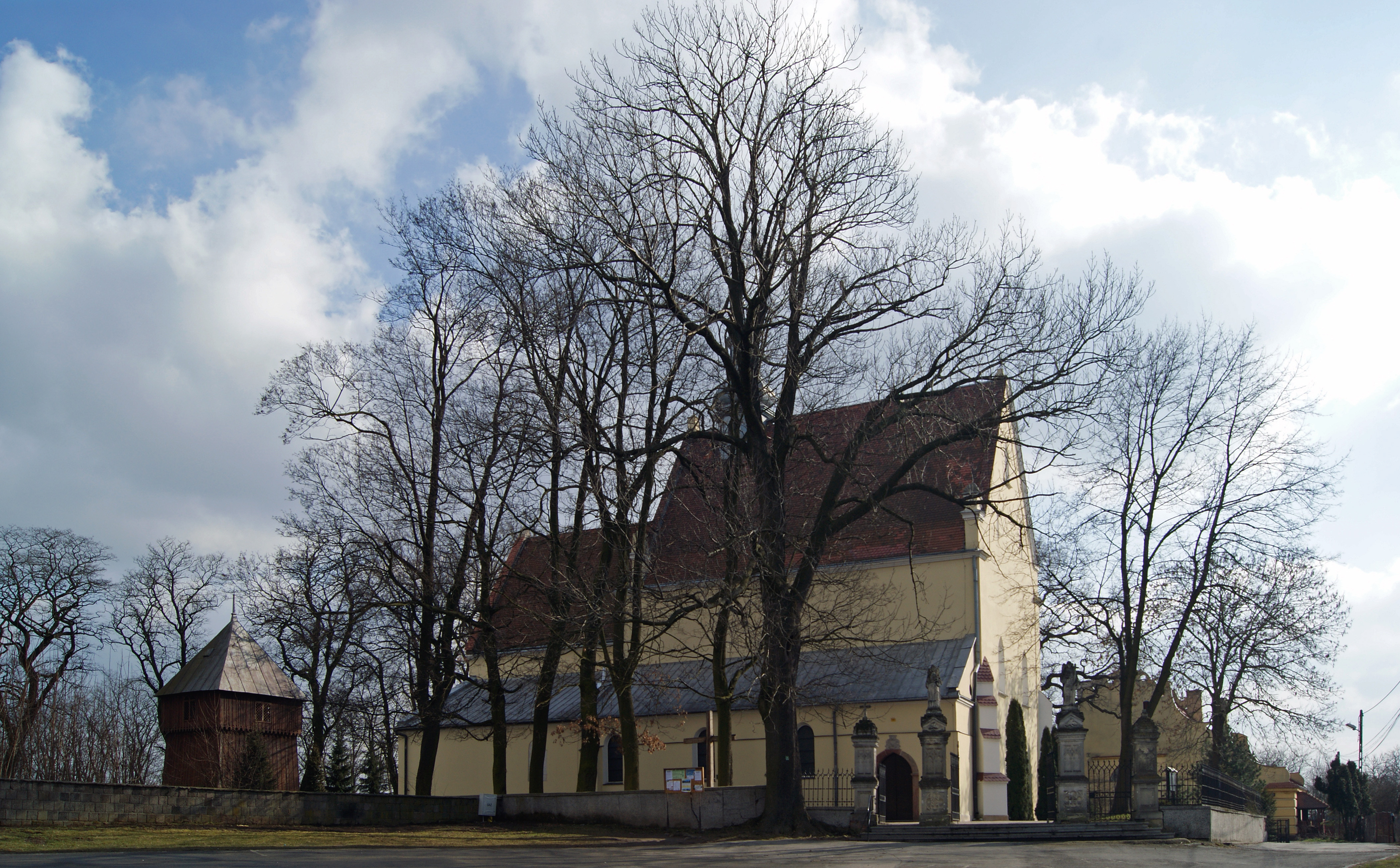 Church of St. Sigismund and Mary Magdalene & bell tower, Wawrzenczyce village, Kraków County, Lesser Poland Voivodeship, Poland